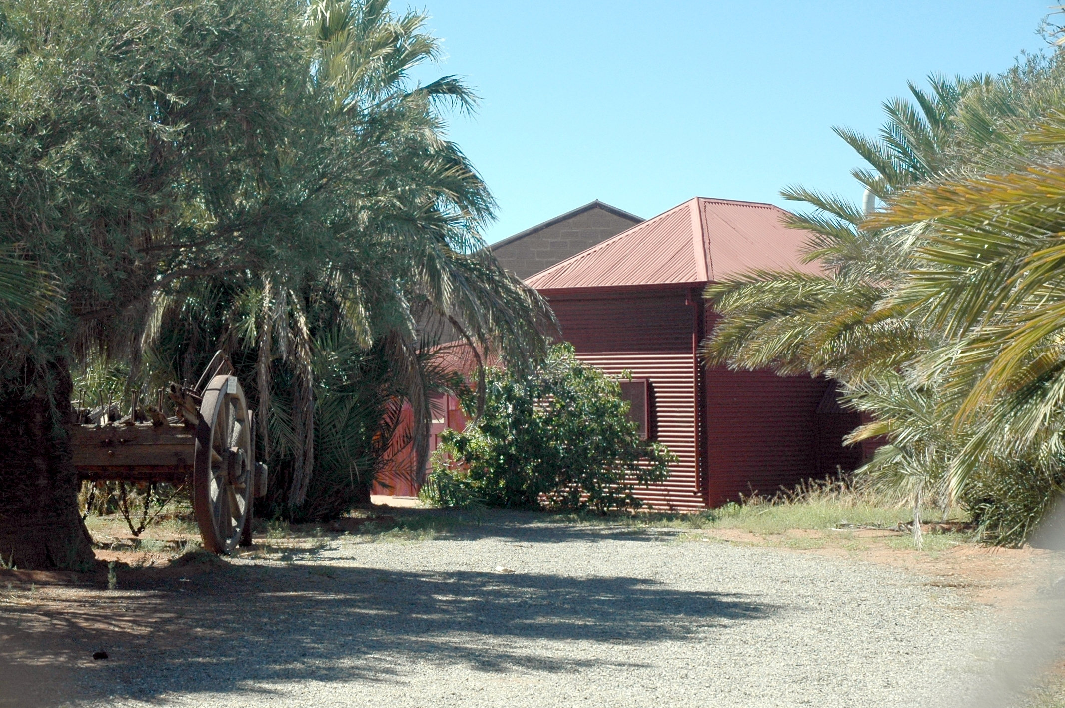 Historic mosque in the mining city of Broken Hill, New South Wales, Australia (about 1100km west of Sydney), In the 19th and early 20th centuries camels were used extensively in outback Australia, and many of the camel keepers were Afghans. The camels and their keepers are gone, but this humble mosque remains as a reminder of the important part they played in the development of modern Australia. Another early Afghan-Australian mosque survives in the town of Bourke. Note the camel cart and the date palms.